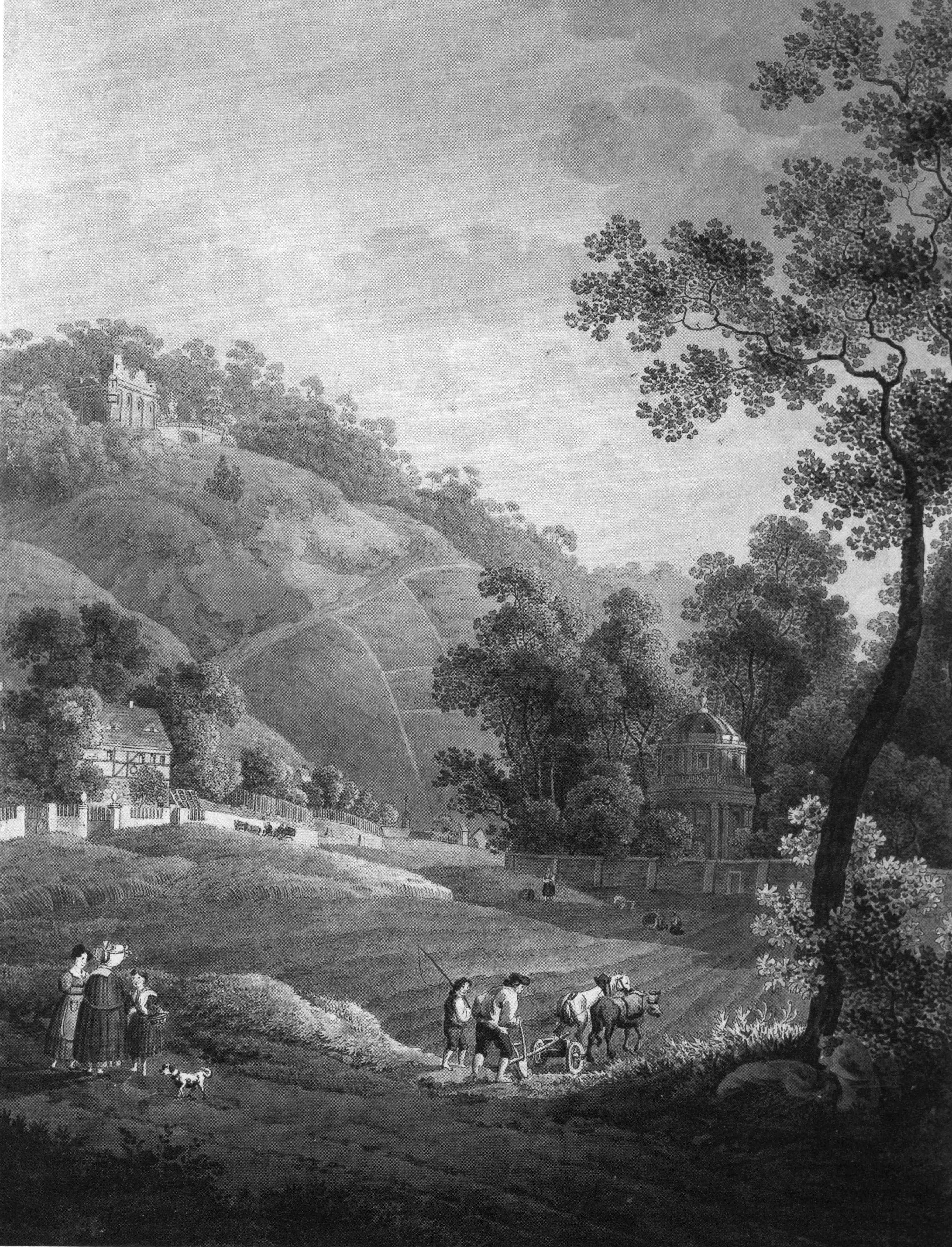 View towards Pillnitz Castle with the English Garden and the artificial ruin, around 1792